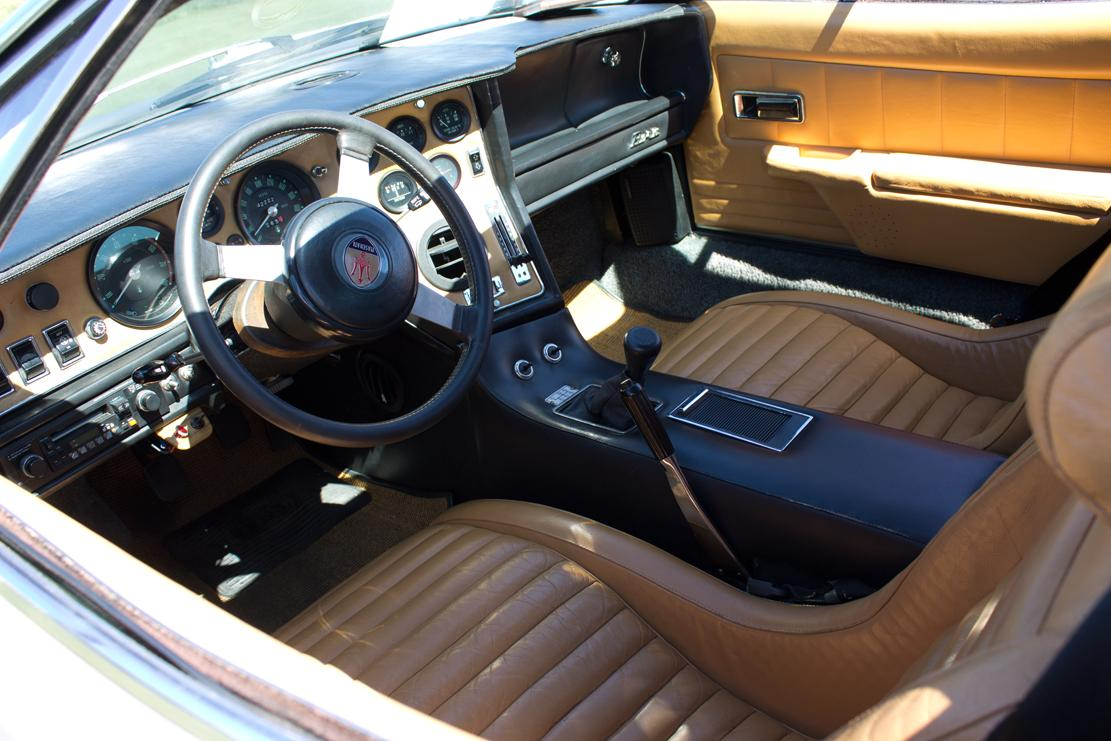 Interior of a Maserati Bora. Taken at Concorso Italiano 2014.